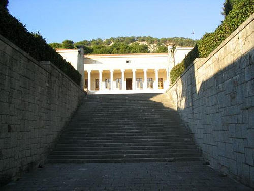 Ivan Meštrović Gallery in Split, Croatia.